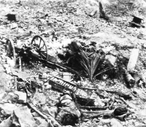 A dead Japanese soldier lies near a smashed Japanese 37mm anti-tank gun after the Battle for Munda Point on New Georgia, August 1943.